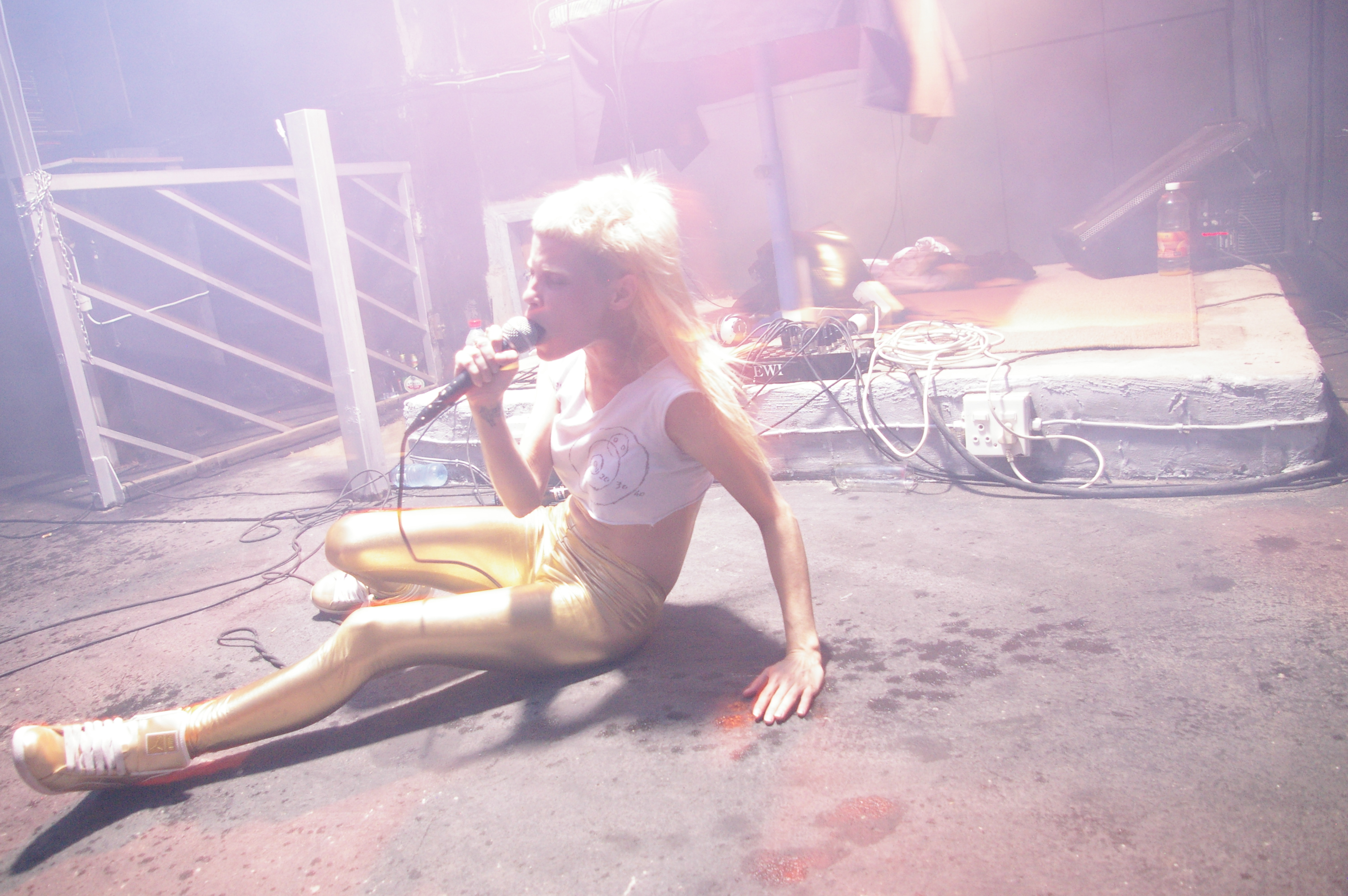 Die Antwoord is Barbare. Zeplins, PTA. 2 Okt 09.